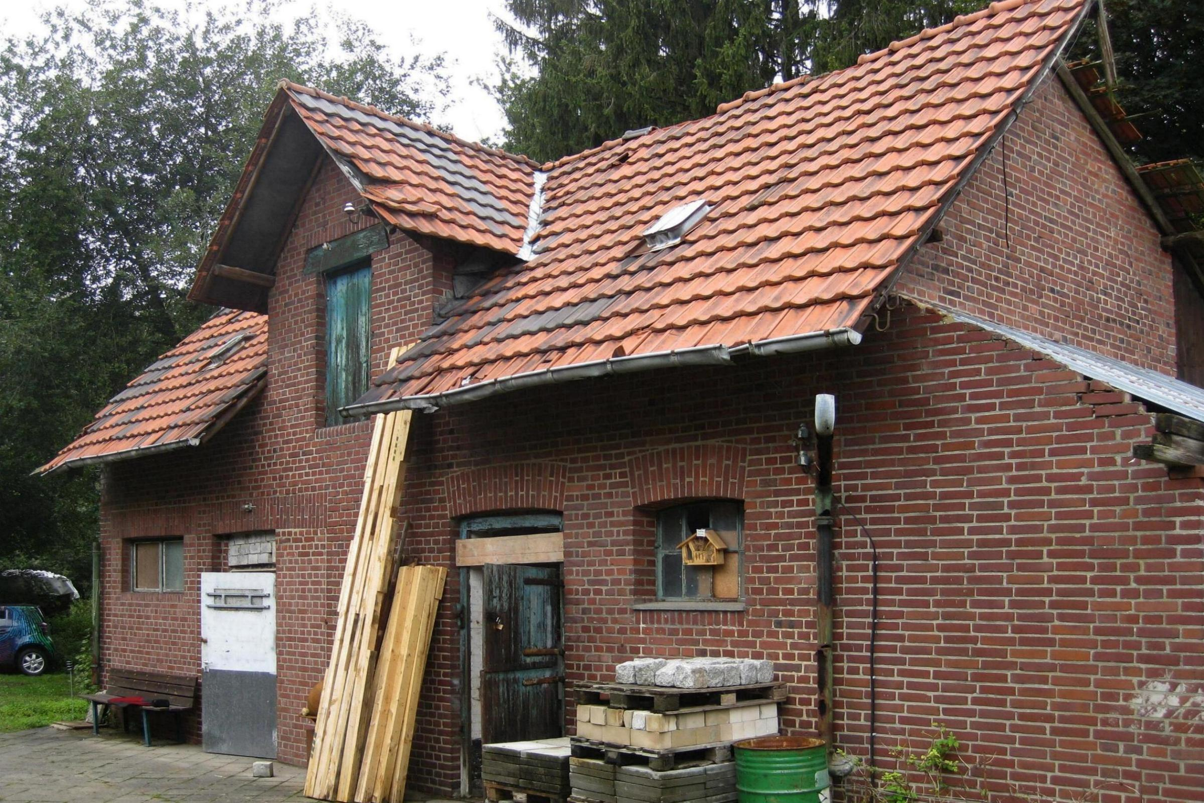 This is a photograph of an architectural monument. 092